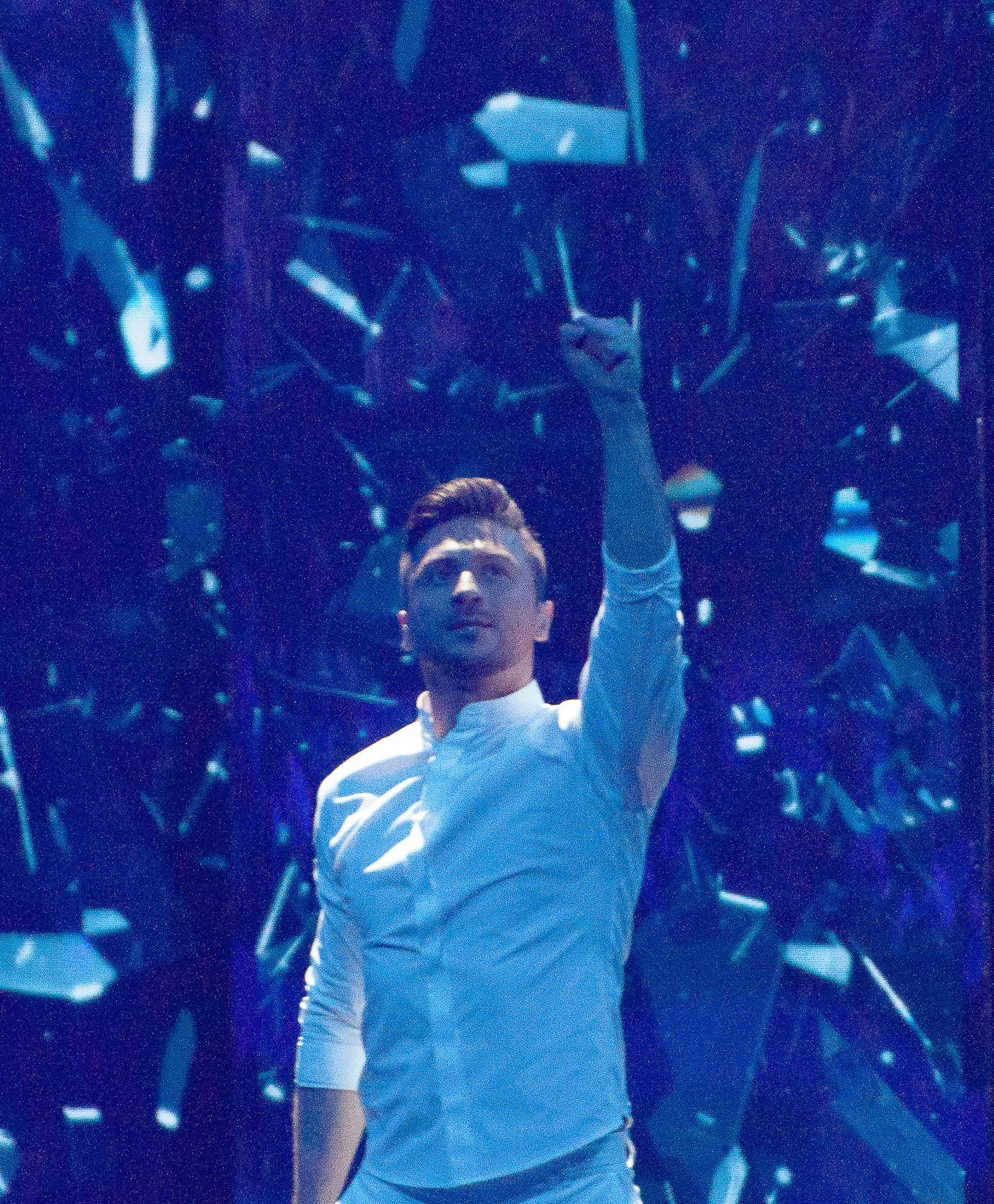 Sergey Lazarev representing Russia with the song "Scream" during a rehearsal before the second semi-final of the Eurovision Song Contest 2019 in Tel-Aviv.